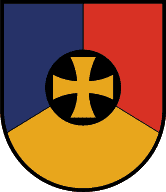 Coat of arms of Ainet, Tirol